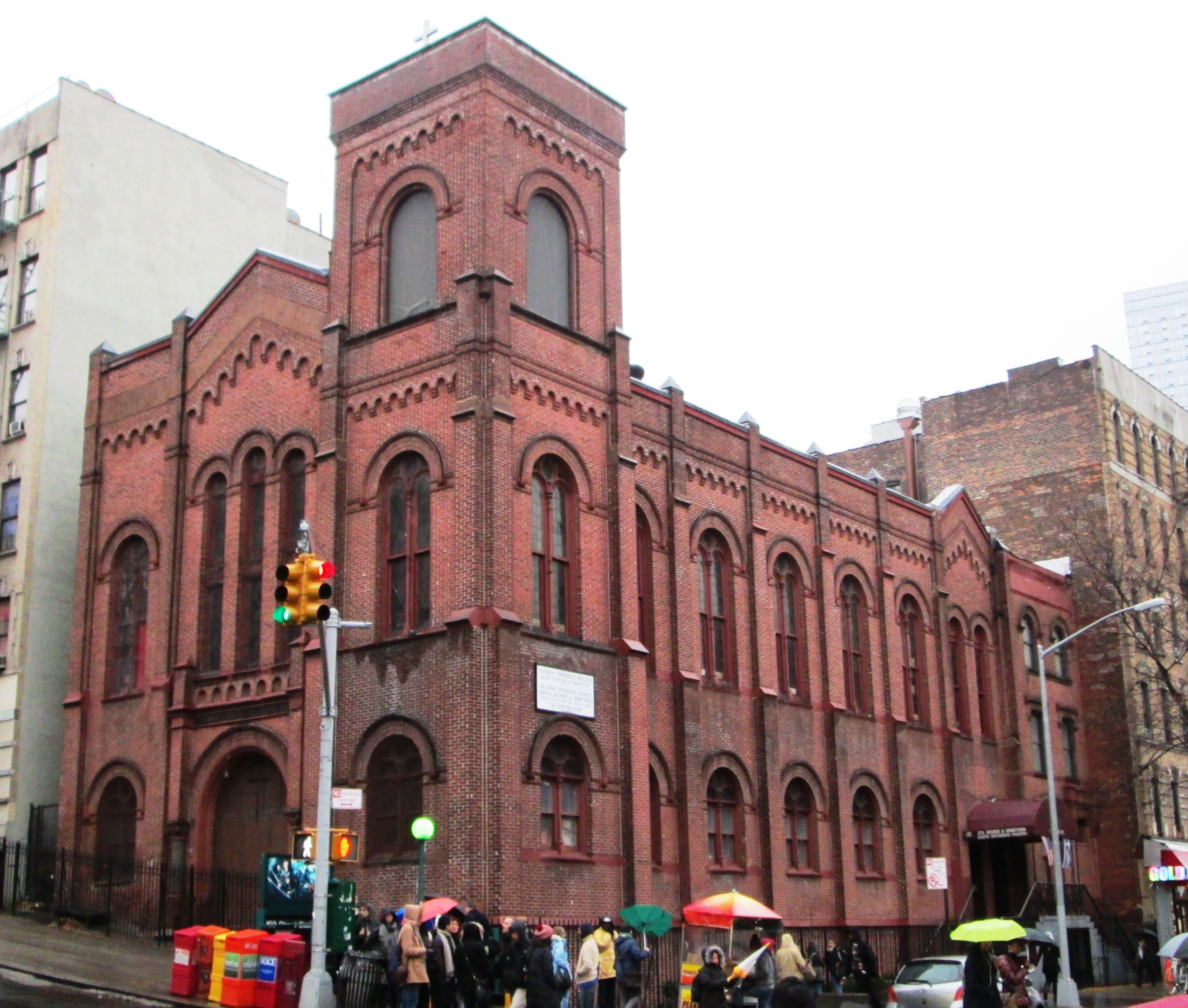 The Hellenic Orthodox Church of Sts. George and Demetrios at 140 East 103rd Street at the corner of Lexington Avenue in the East Harlem neighborhood of Manhattan, New York City, was built in 1891 and was designed by Franklin Baylies in the Romanesque Revival style. It was originally the Blinn Memorial Methodist Episcopal Church, until 1930. In 1931 the new Greek Orthodox Church of St. George took over the sanctuary, and was joined by the parish of St. Demetrios in 1934; the latter was founded in 1927. (Source: From Abyssinian to Zion (2004))